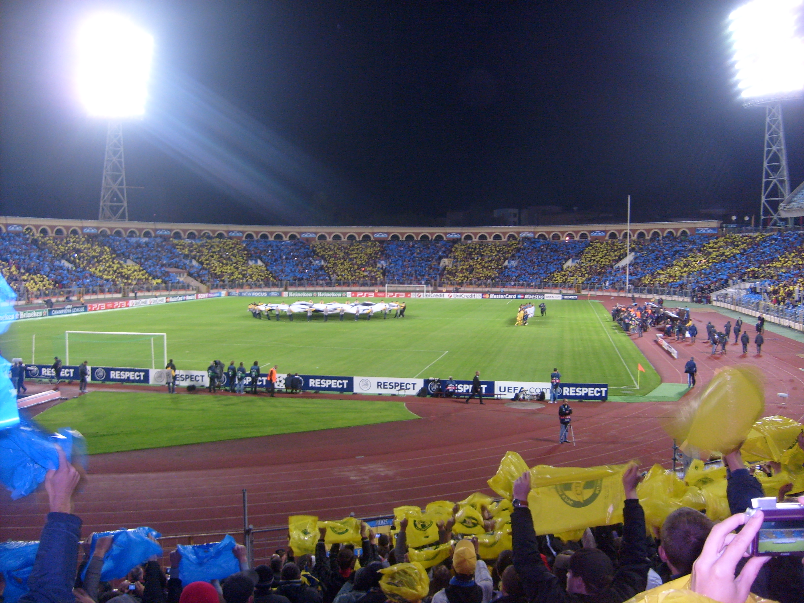 Dynamo stadium, Minsk, 25-11-2008. UEFA Champions league match BATE-Barcelona, 0:5